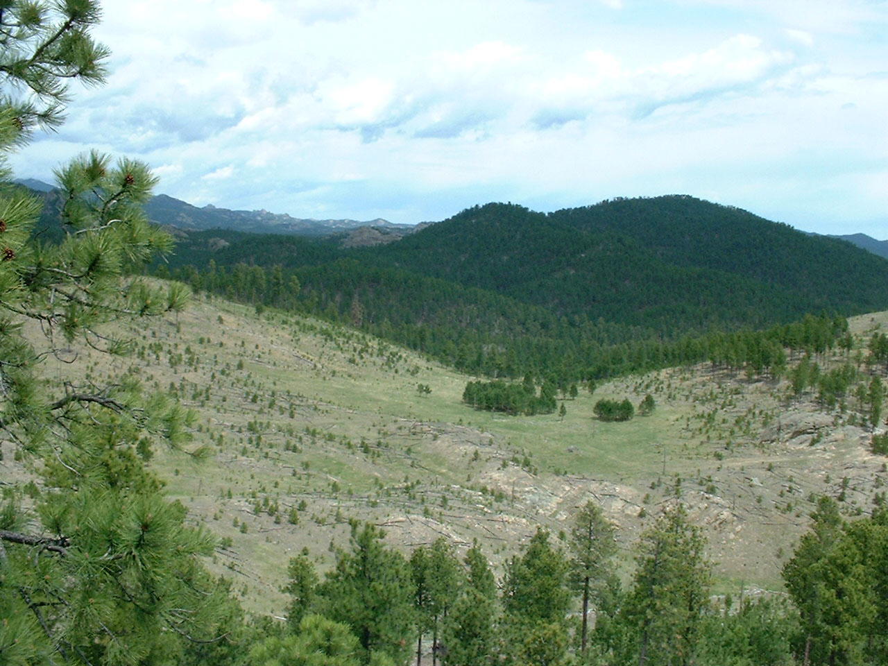 A view of the Black Hills of South Dakota, United States, in recovery after a forest fire. Photograph taken May 28, 2002 by Kelly Martin.